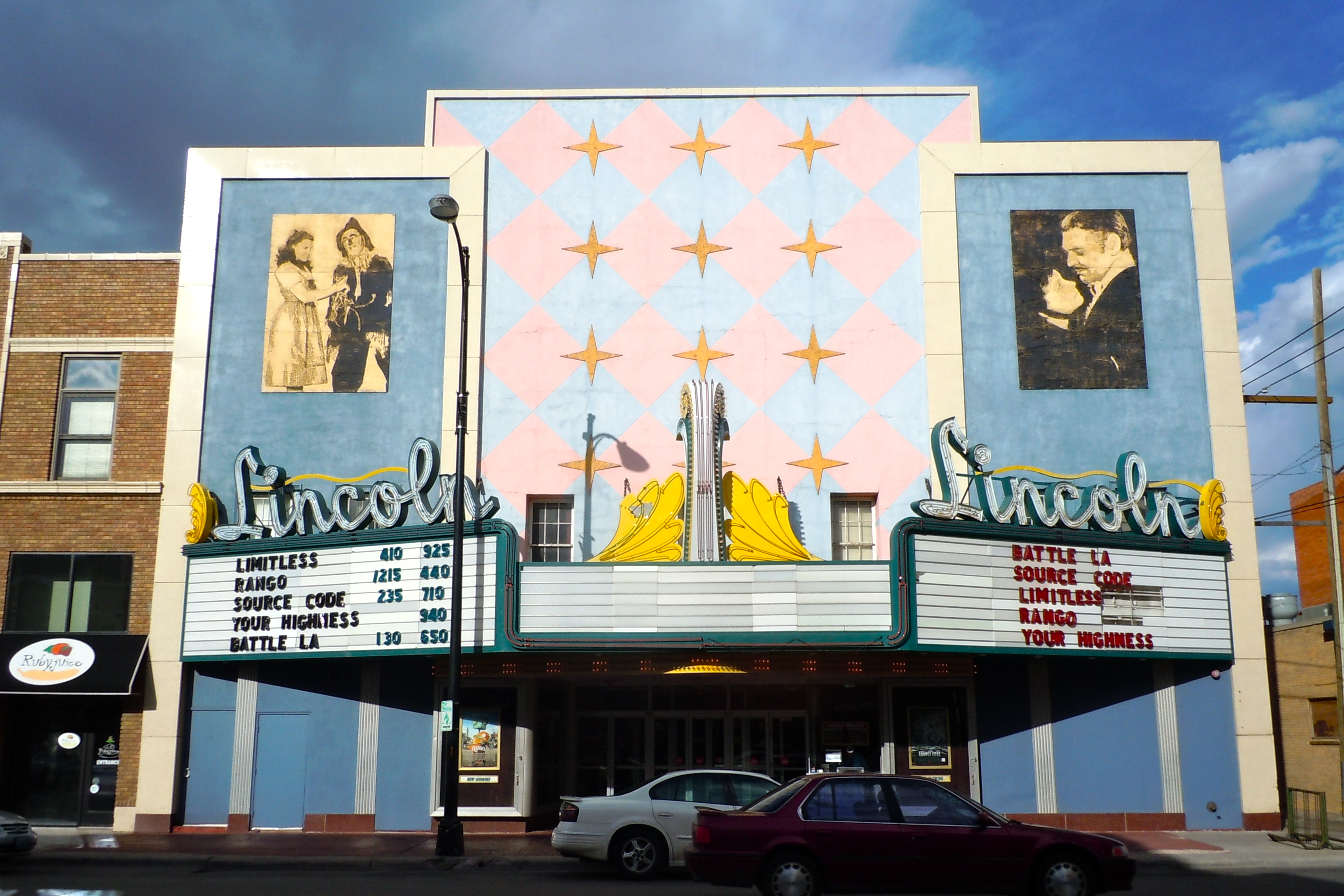 The Lincoln Theater in Cheyenne, Wyoming on US 30, the Lincoln Highway (aka Lincolnway or 16th Street in Cheyenne)